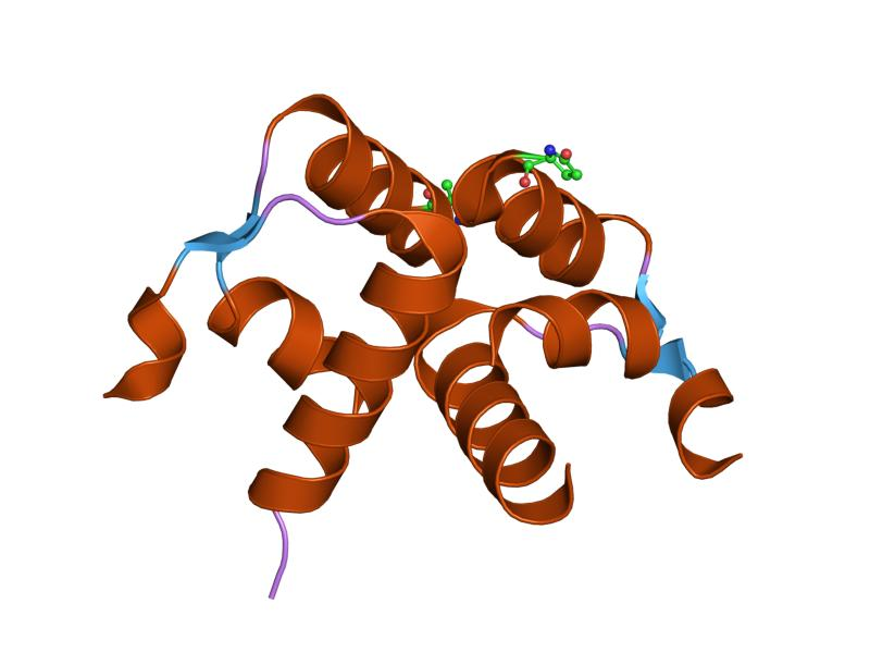 Cartoon representation of the molecular structure of protein registered with 6rlx code.